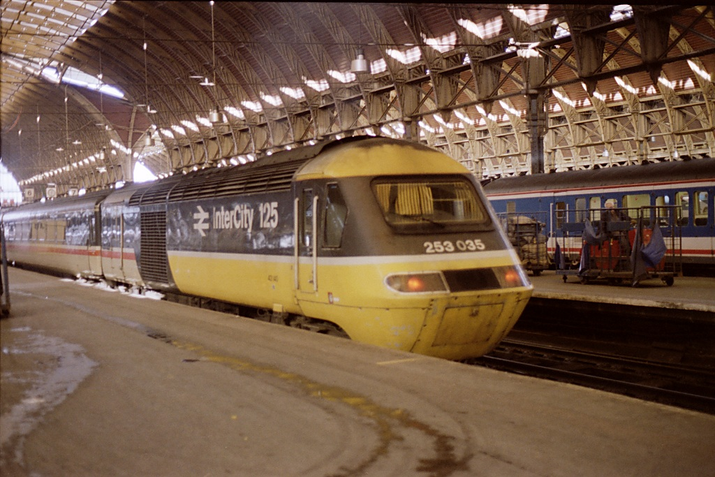 British Rail HST train with old Class 253 numbering at Paddington Station.